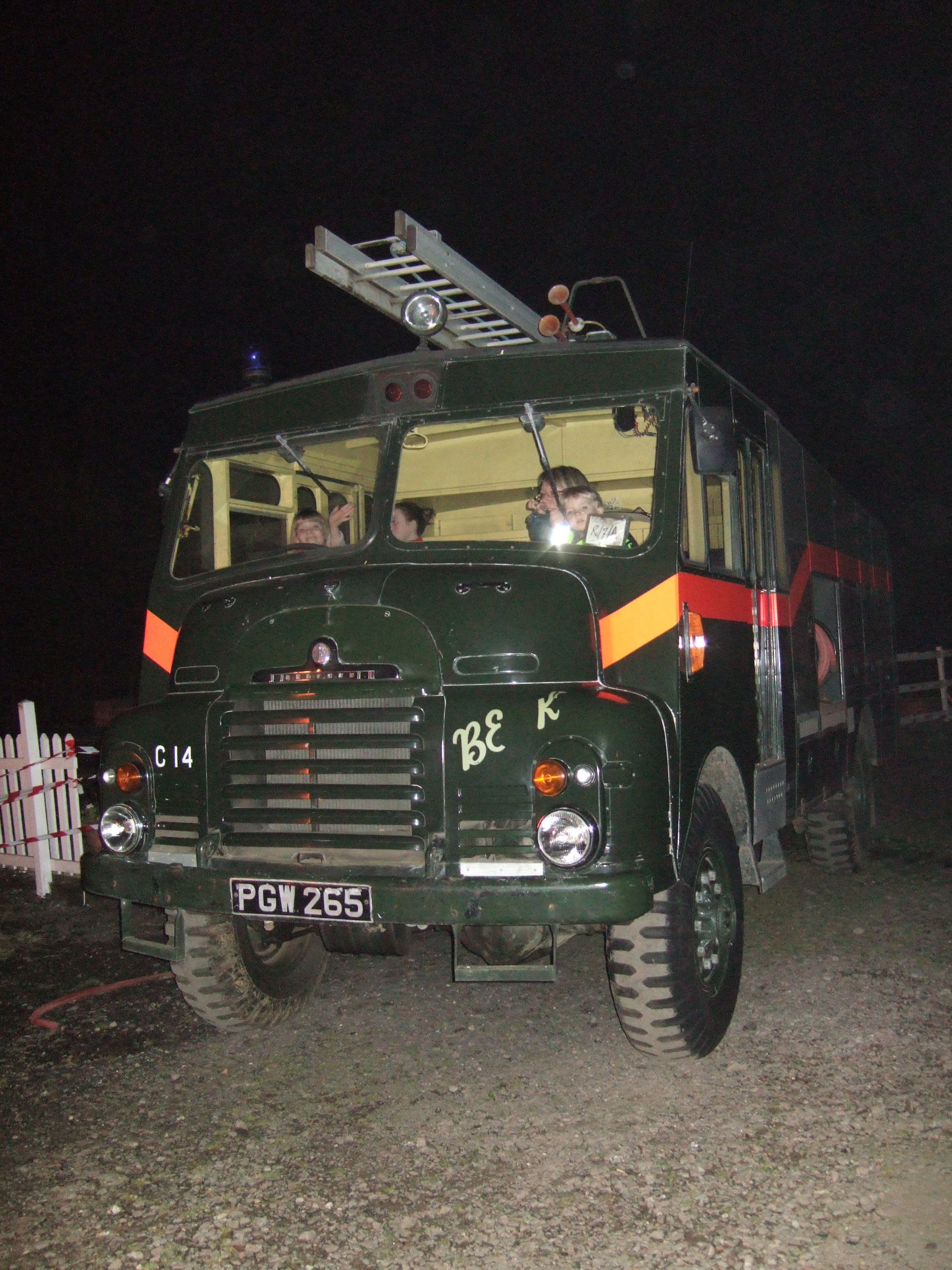 PGW 265 in the dark - 'Green Goddess', or Bedford RLHZ Self Propelled Pump, a fire engine used originally by the Auxiliary Fire Service (AFS), and latterly by the British Armed Forces. These vehicles were built between 1953 and 1956 for the Auxiliary Fire Service. The design was based on a Bedford RL series military truck.